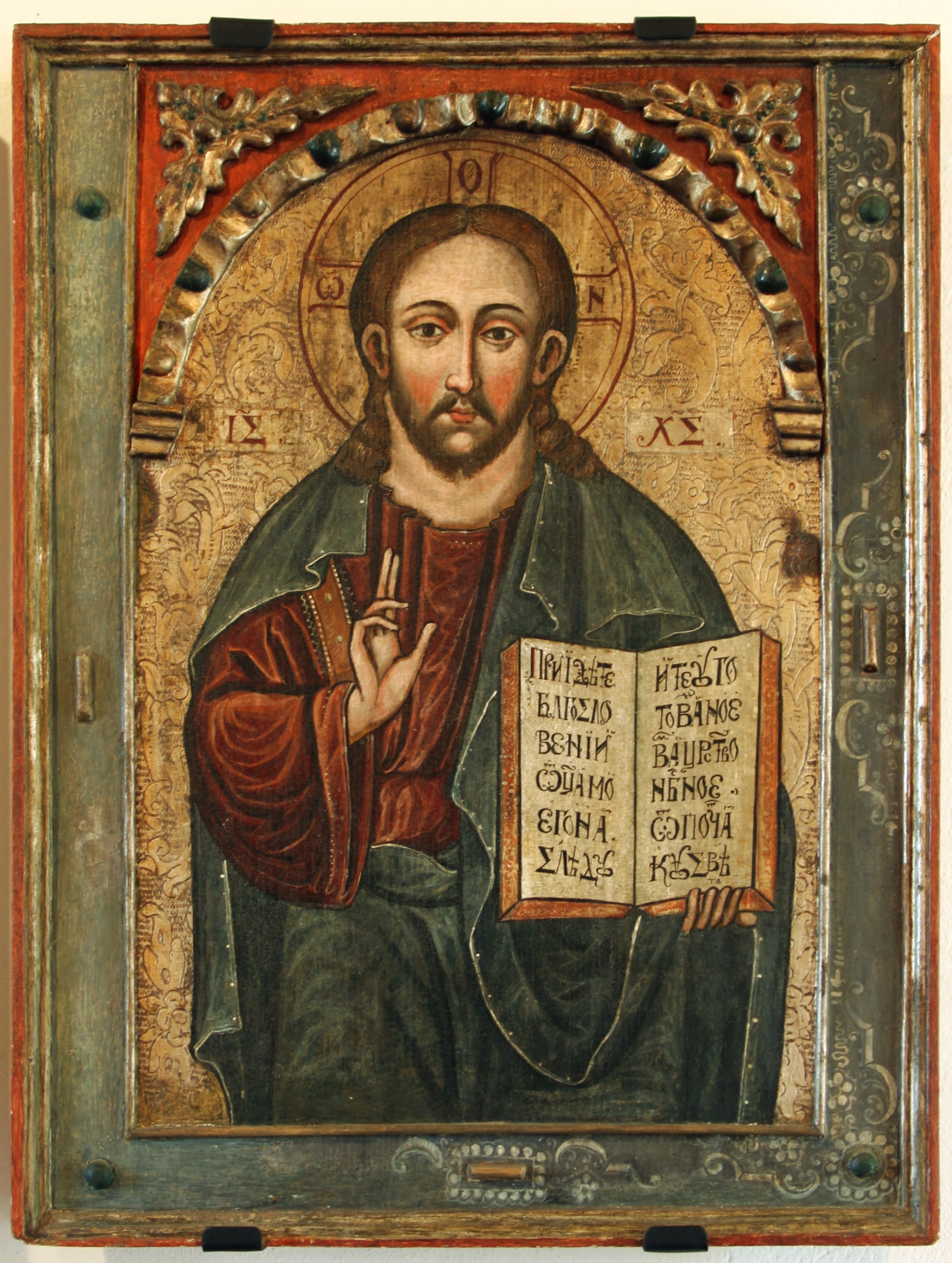 Jesus Christ Pantocrator - an icon, Historic Museum in Sanok, Poland